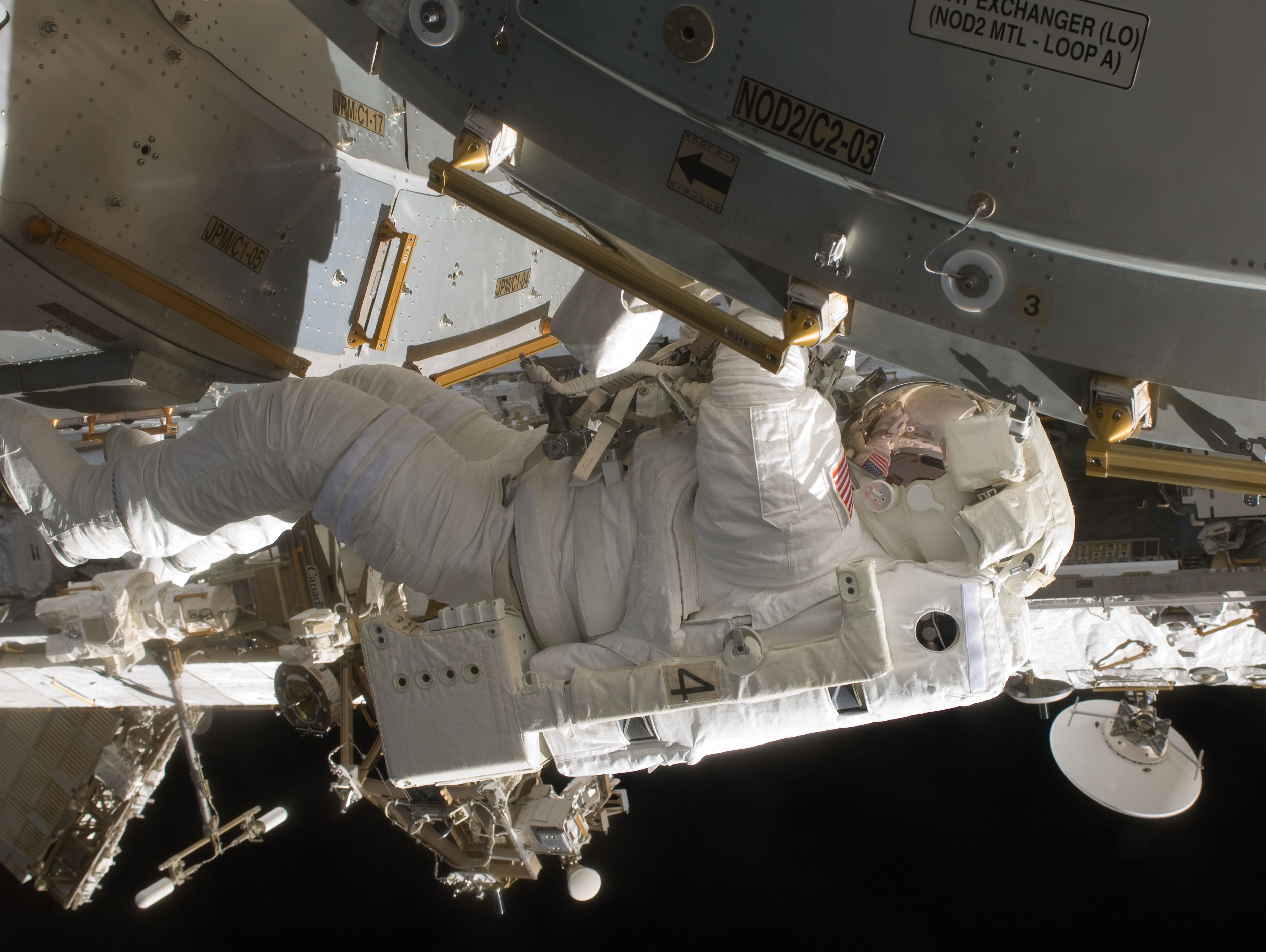 NASA astronaut Timothy Kopra making a spacewalk during the STS-127 mission.